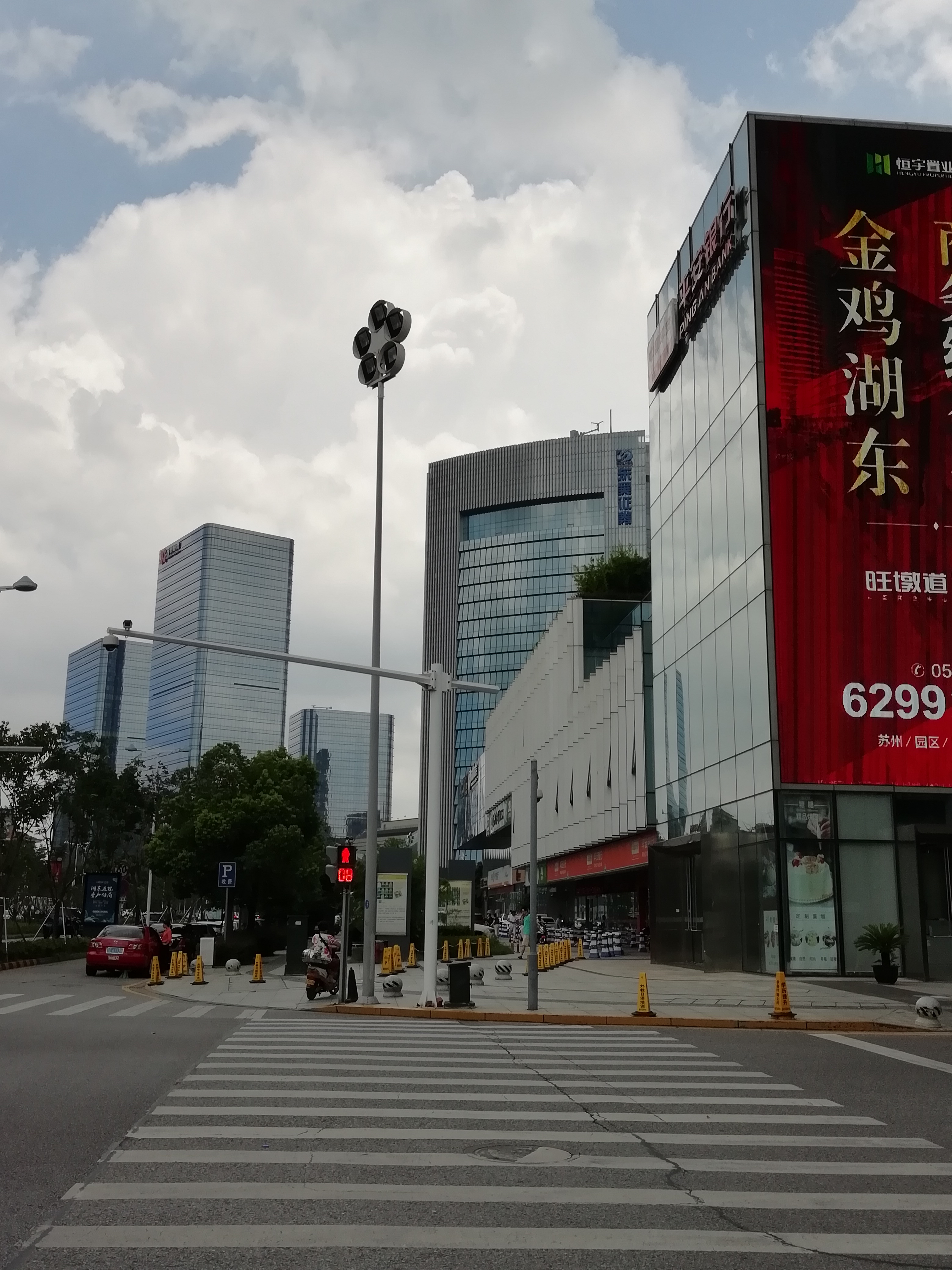 Soochow Securities Building, located in Suzhou Industrial Park, is the headquarters of Soochow Securities. 中文（中国大陆）: 东吴证券大厦，位于苏州工业园区